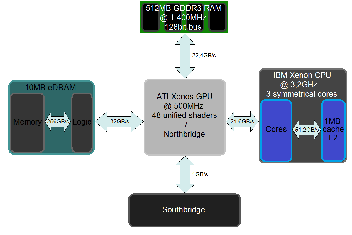 Main Xbox 360 bandwidth scheme with some generic hardware specifications. Own work based on a previous picture and on hardware specifications in PNG quality.